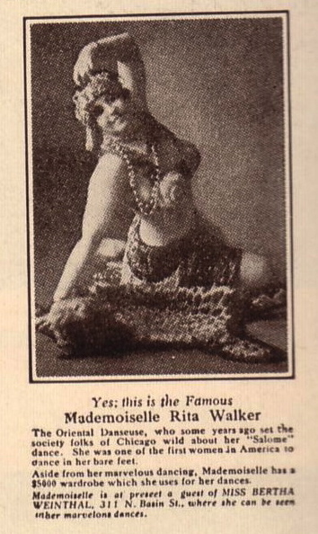 New Orleans: Advertisement for exotic dancer Rita Walker in the "Storyville" Red light district at the start of the 20th century.